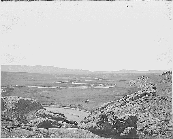 Original description: Looking west from over Devil's Gate showing the plains of the Sweetwater, the Oregon Trail, and the Seminole Mountains in the distance. Gifford and Elliot in the foreground. Ambulance below carrying photo working outfit. Devil's Gate is a narrow cleft in a granite ridge, 400 feet high, the Sweetwater flowing through it. Fremont County, Wyoming., 1870